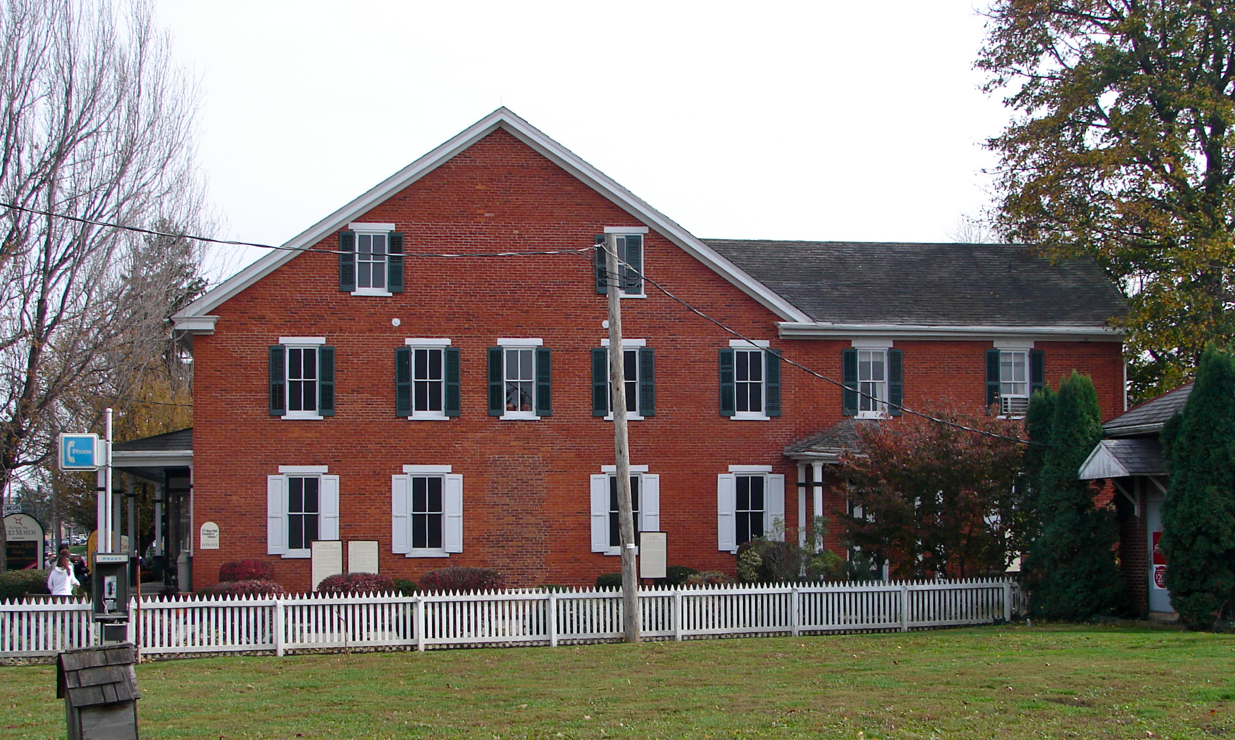 Old Country Store and People's Quilt Museum in Intercourse, Pennsylvania. Oldest store in town, but burnt down and rebuilt in 1880s.